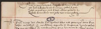 Livro de Marinharia de João de Lisboa (signed 1514)